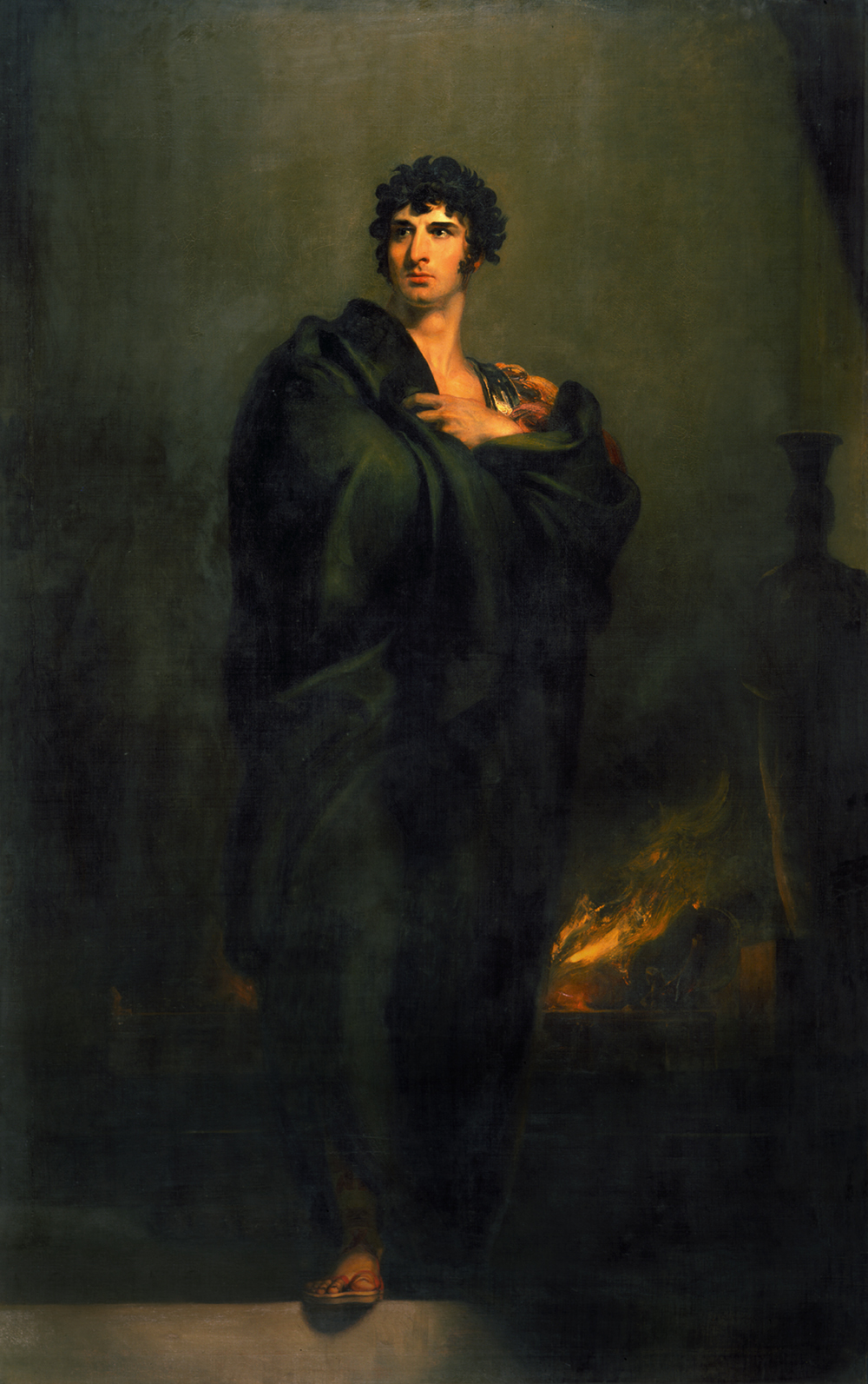 John Philip Kemble's (1757–1823) most famous role was as Coriolanus. He made his first appearance in a major role in 1776 and later played Hamlet in London (his first role there) in 1783. during his career he managed both the Drury Lane Theatre and Covent Garden where he was noted for his parts in Shakespeare's plays.